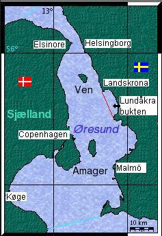 Location of Lundåkrabukten ("Lundåkra Bay")in Øresund (latitudes and longitudes can be seen)